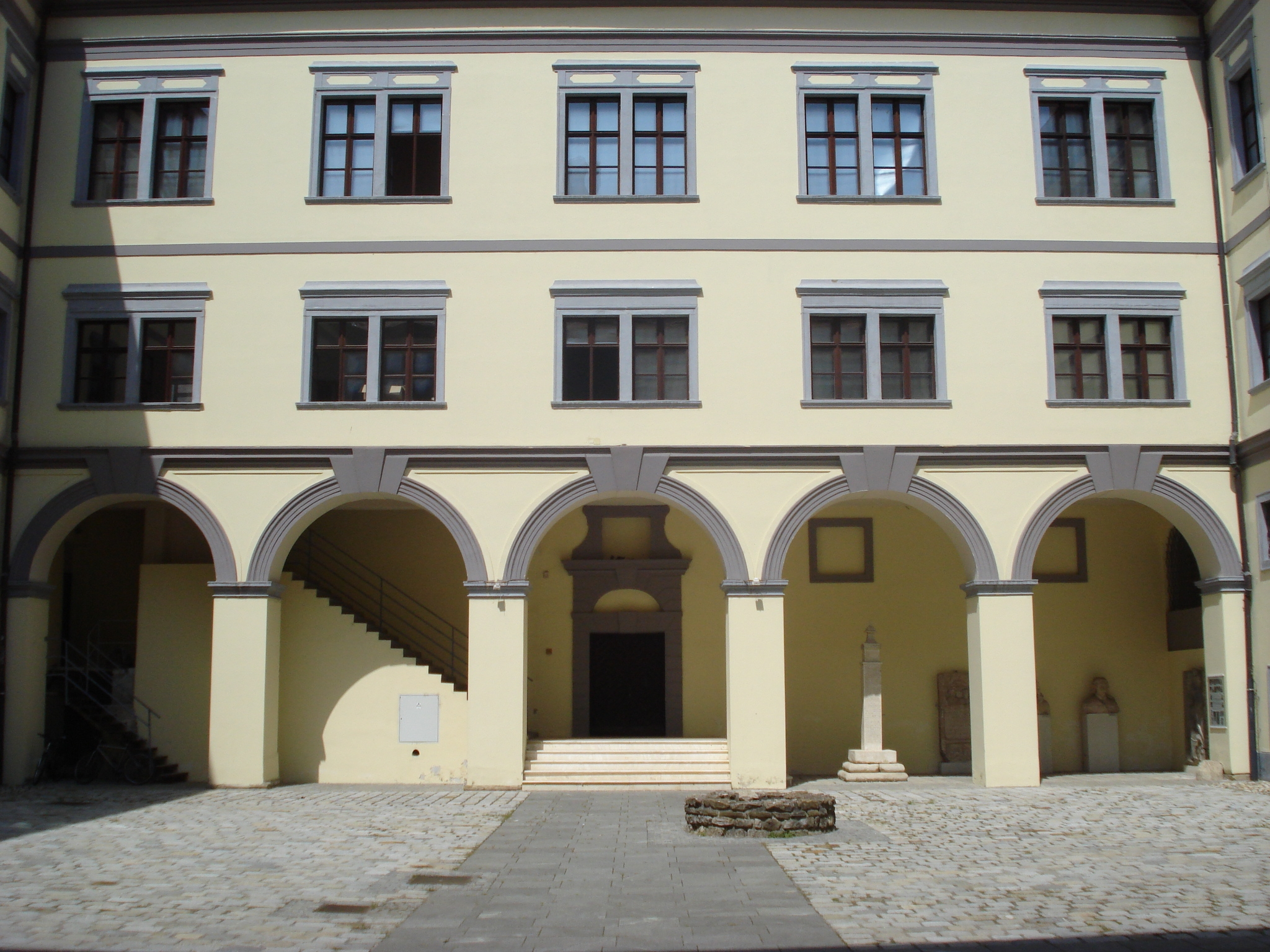 Arcades in the atrium of the inner palace of Zrinski Castle in Čakovec, CroatiaHrvatski: Arkade u atriju unutrašnje palače Starog grada Zrinskih u Čakovcu, Hrvatska